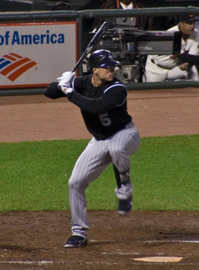 Matt Holliday of the Colorado Rockies hits against the San Francisco Giants at AT&T Park in 2007. 06:34, 27 September 2007 . . StormXor . . 401×545 (97 KB)